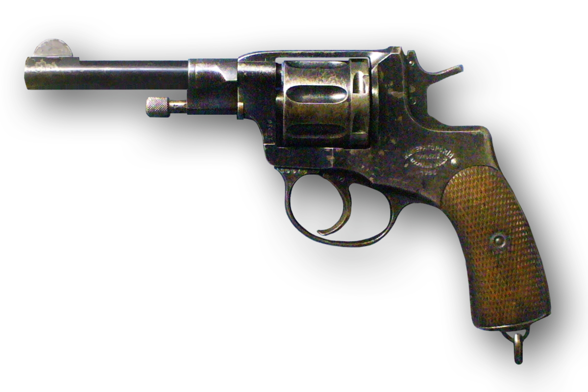 Nagant M1894, Russian service revolver